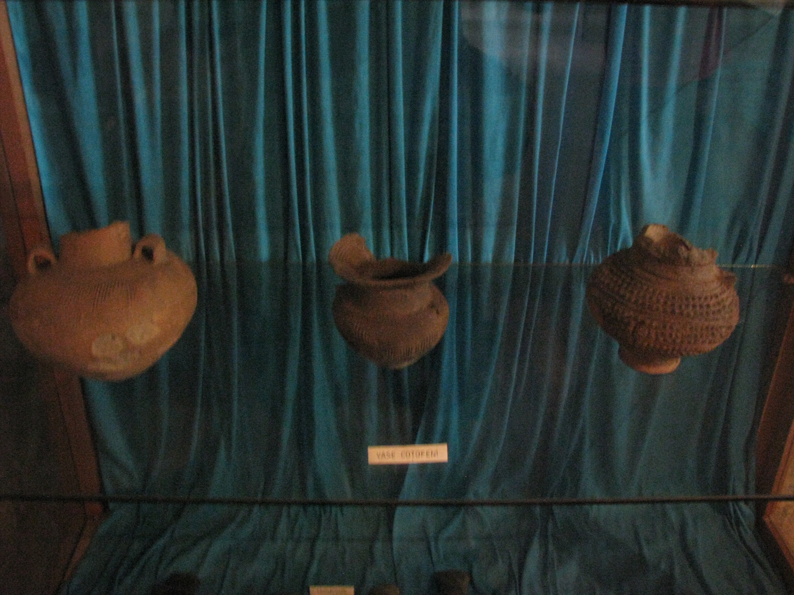 Aiud History Museum 2011